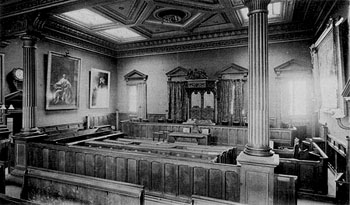 Interior of the Royal Court of Jersey